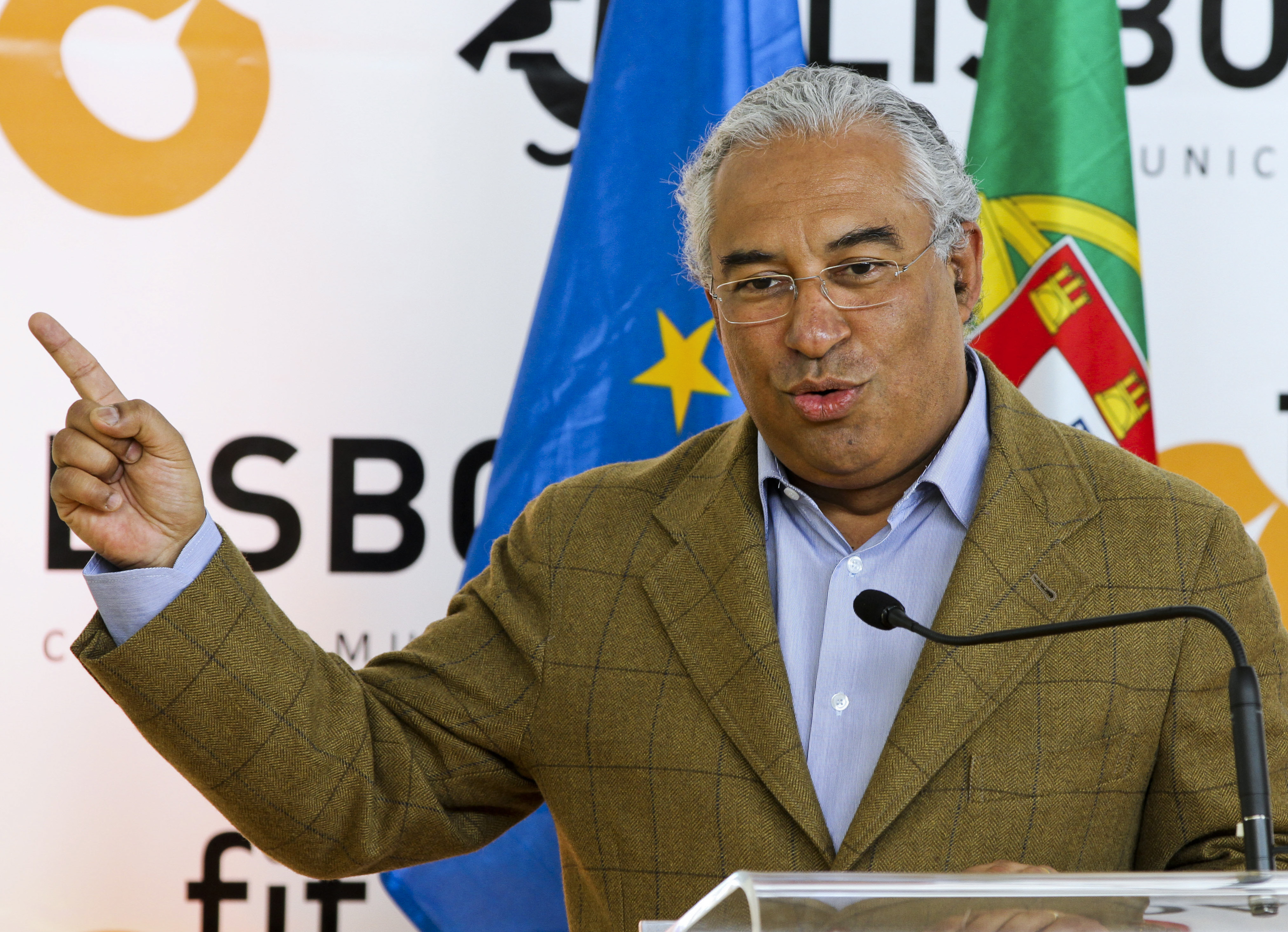 Antonio Costa, Mayor of Lisbon